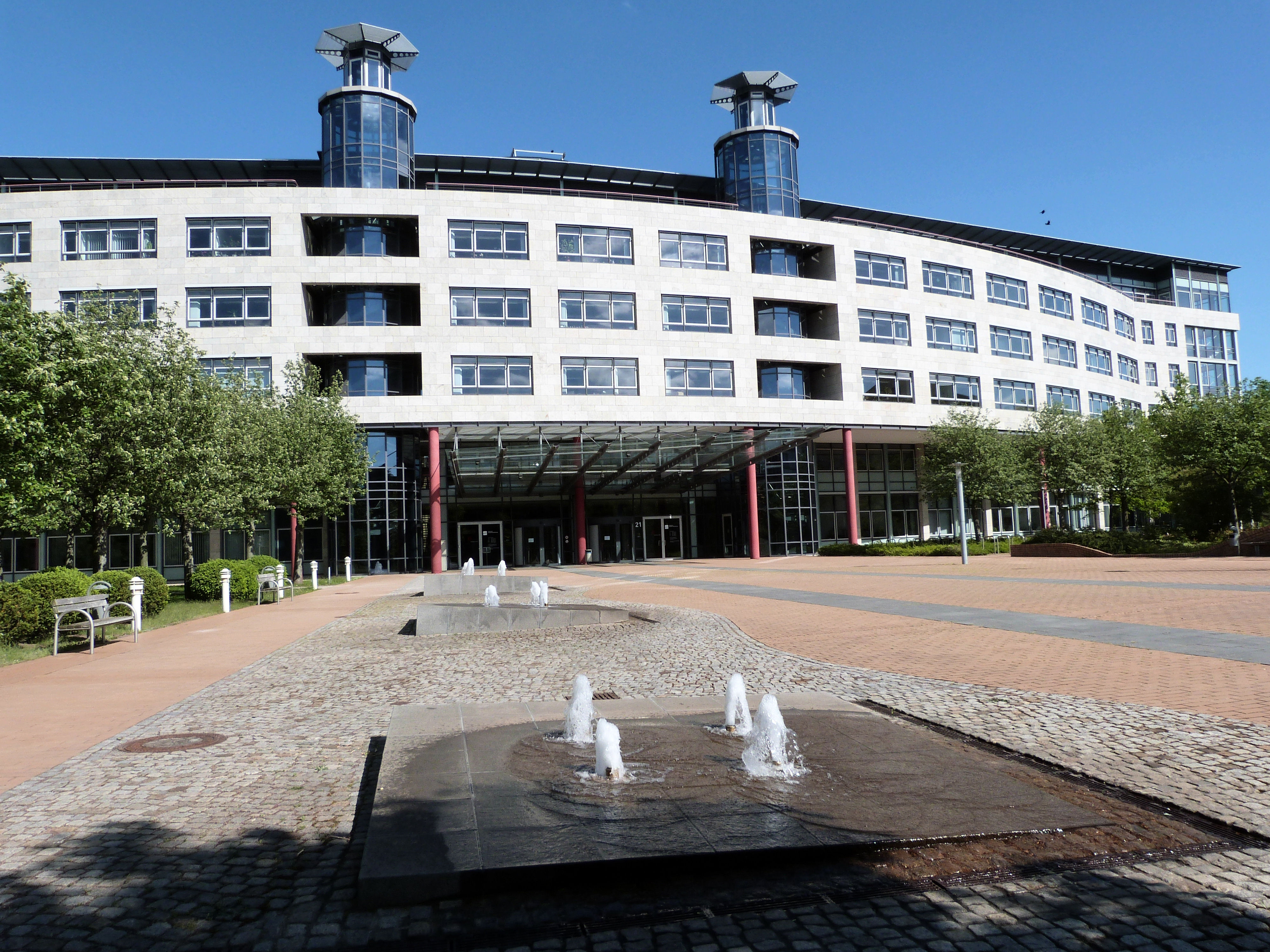 Office building of Deutsche Rentenversicherung Mitteldeutschland, Paracelsusstrasse No. 21, Halle (Saale)